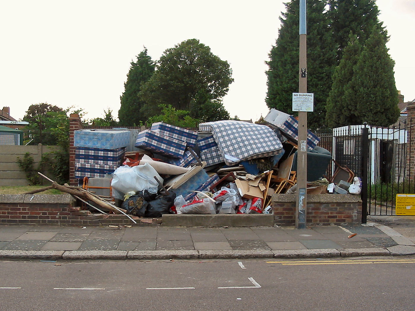 Scales Road, London N17, England on 9 August 2006. This small area, in front of an electricity substation, was regularly dumped and fly-tipped. Complaints led to the Electricity Company fencing it.